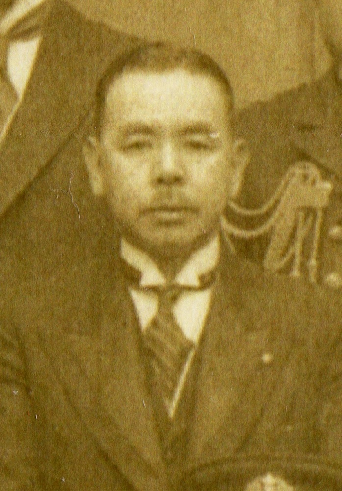 Viscount Nagaatsu Kuroda